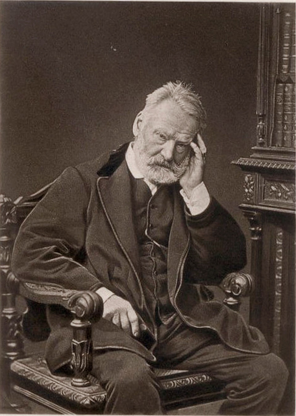 French poet Victor Hugo, Photogravure